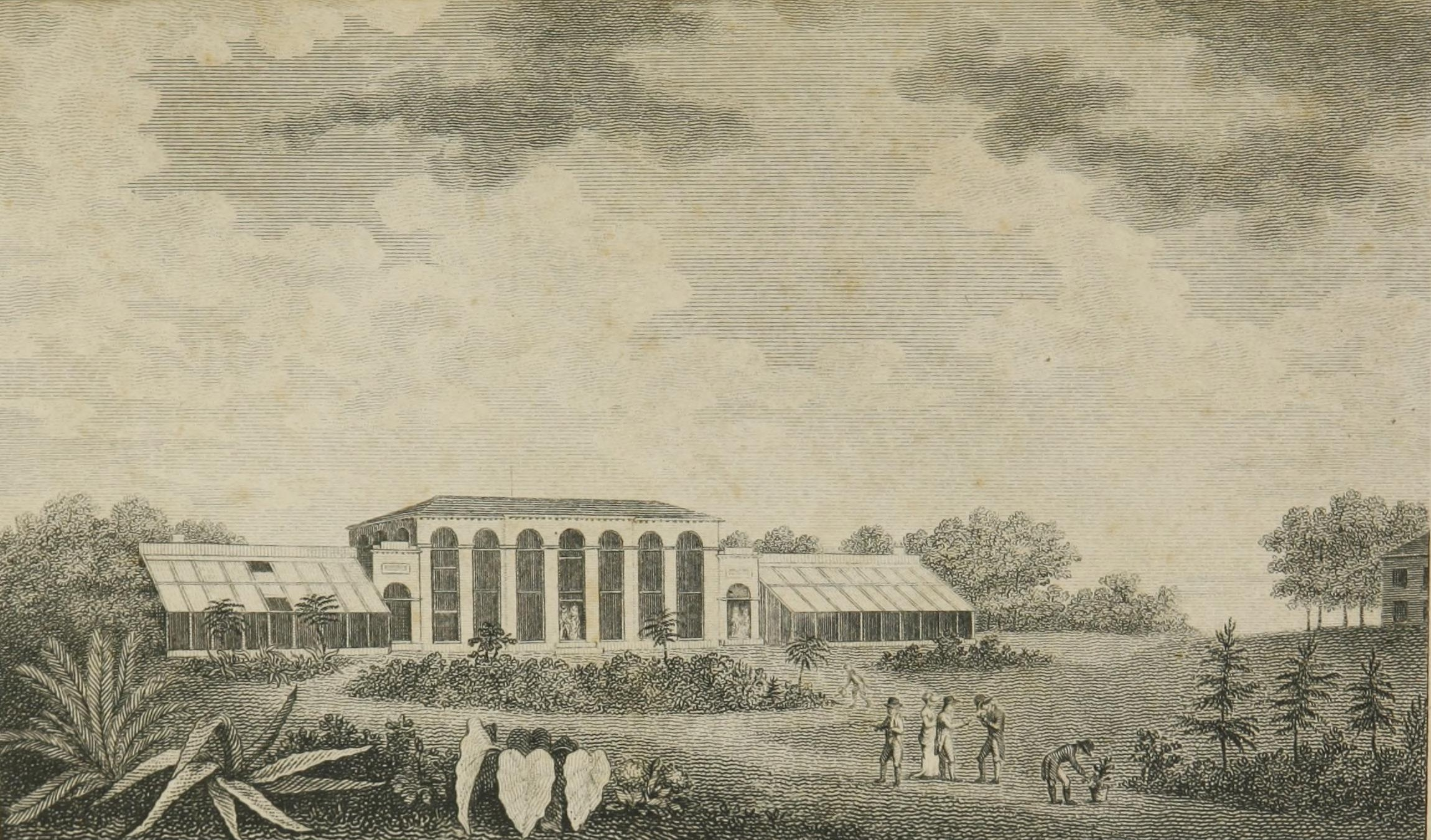 Engraving circa 1802 of a drawing by L. Simond, titled View of the Botanic Garden at Elgin in the vicinity of the City of New York, frontispiece of a pamphlet by David Hosack